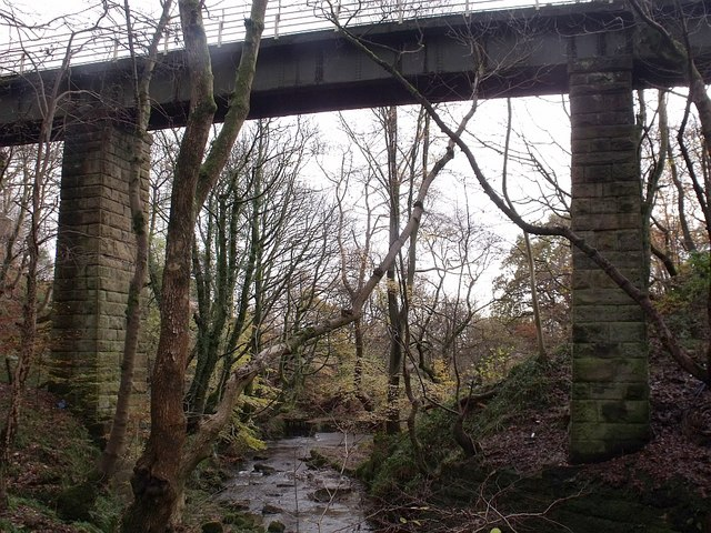 Bridge over the Garrel Glen A railway viaduct that once carried a mineral line over the ravine it is now utilised as part of the north Kilsyth path network.